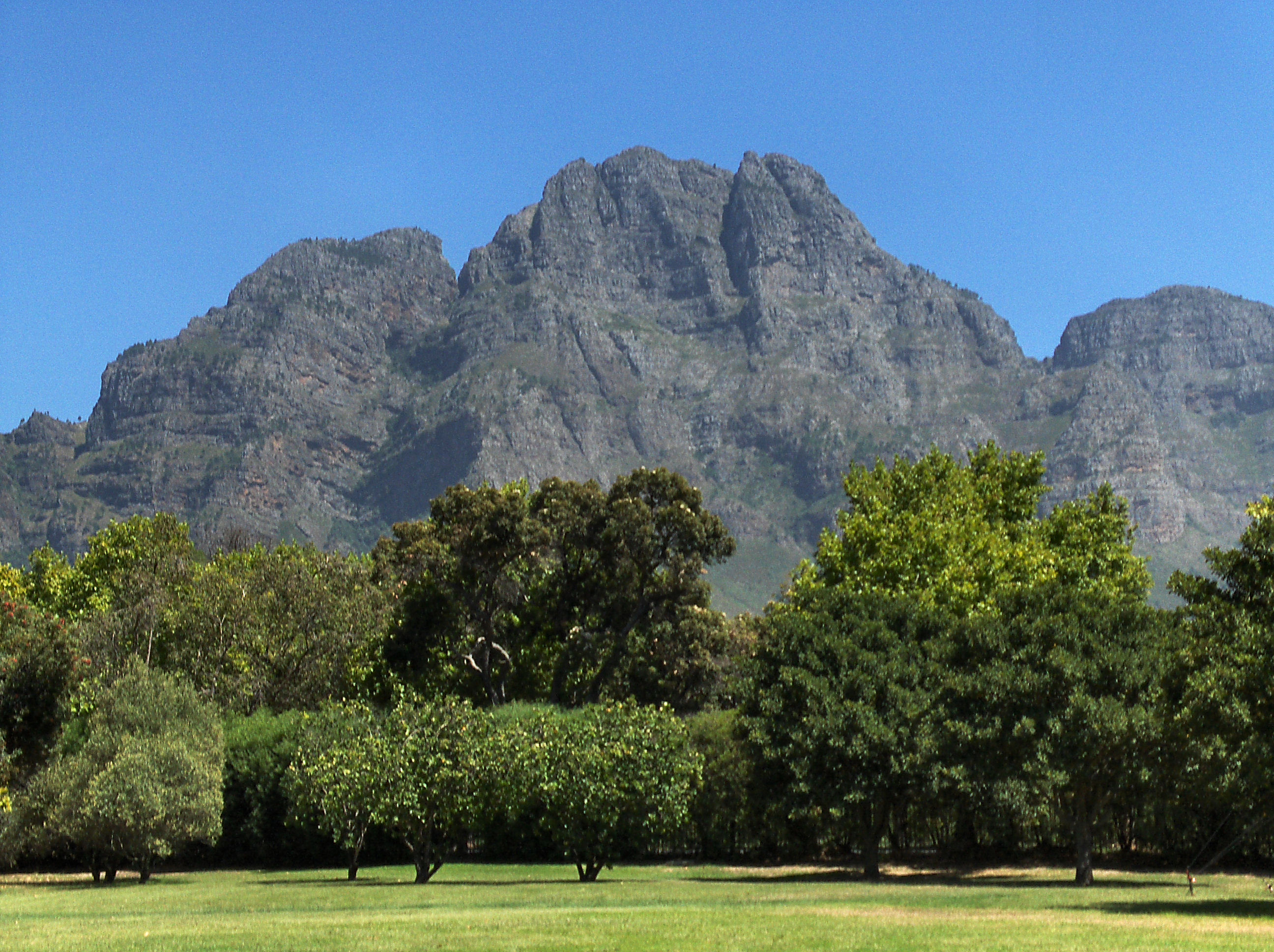 Groot Drakenstein, seen from Stellenbosch, near Franschoek, Western Cape, South Africa.